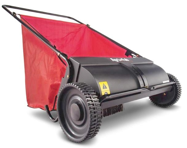 Agri-Fab push lawn sweeper